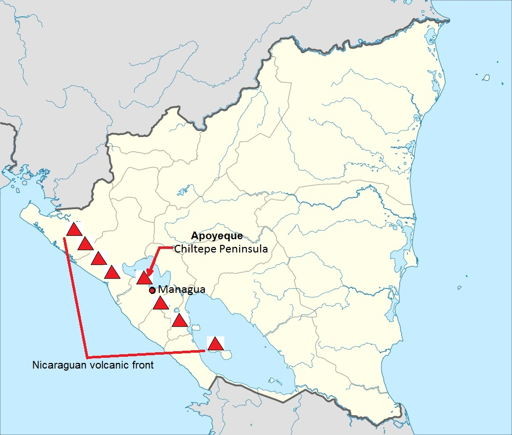 Location map Nicaragua with Departamentos, Equirectangular projection, N/S stretching 100 %. Geographic limits of the map: * N: 15.2° N * S: 10.6° N * W: -87.9° E * E: -82.5° E